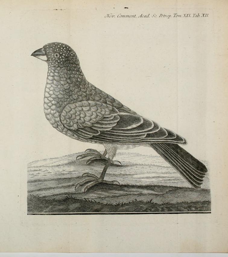 First depiction of Great Rosefinch (Carpodacus rubicilla), 1775.